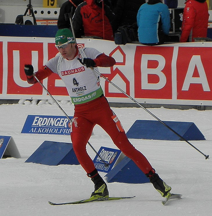 Simon Eder in Antholz, 21-01-2010